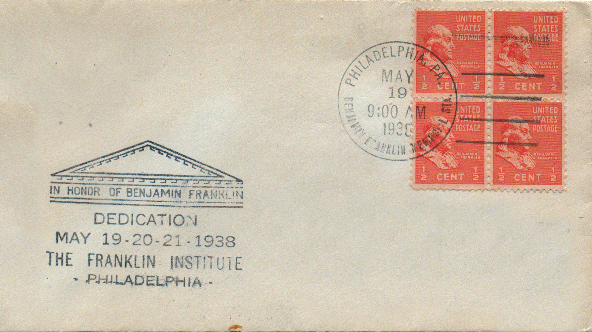 First Day Cover Benjamin Franklin 1/2¢ "Prexie" issue Scott 803 at Franklin Institute, Philadelphia, PA